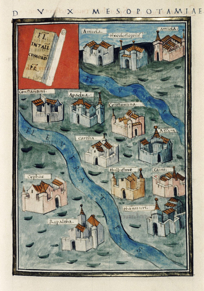 Dux Mesopotamiae (Roman military stations in Mesopotamia) from the parchment manuscript Notitia dignitatum, showing the Tigris and Euphrates rivers